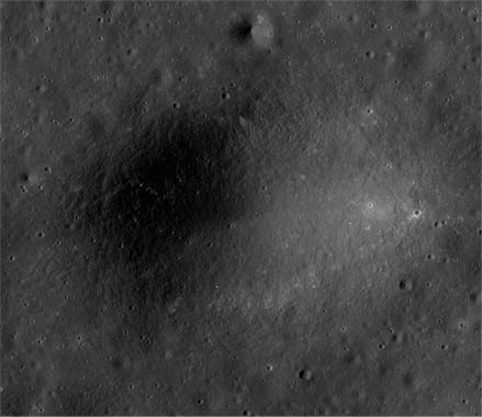 Monira lunar crater - LROC NAC image M104527070RC.